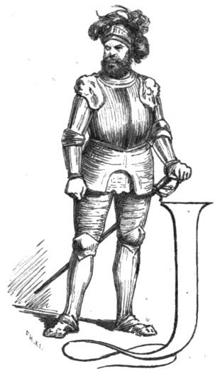 Danish actor Johan Wiehe (1830-1877).